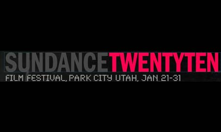 2010 Sundance Film Festival logo.